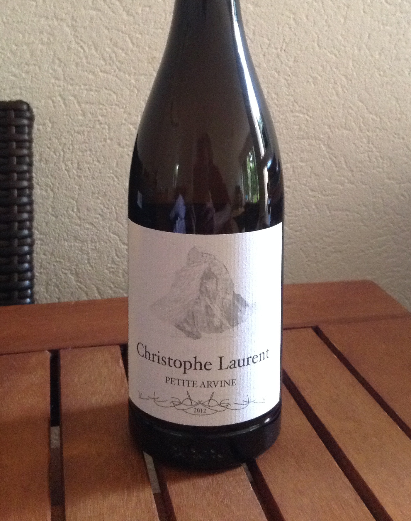 White wine Petite Arvine from the Christophe Laurent winery.